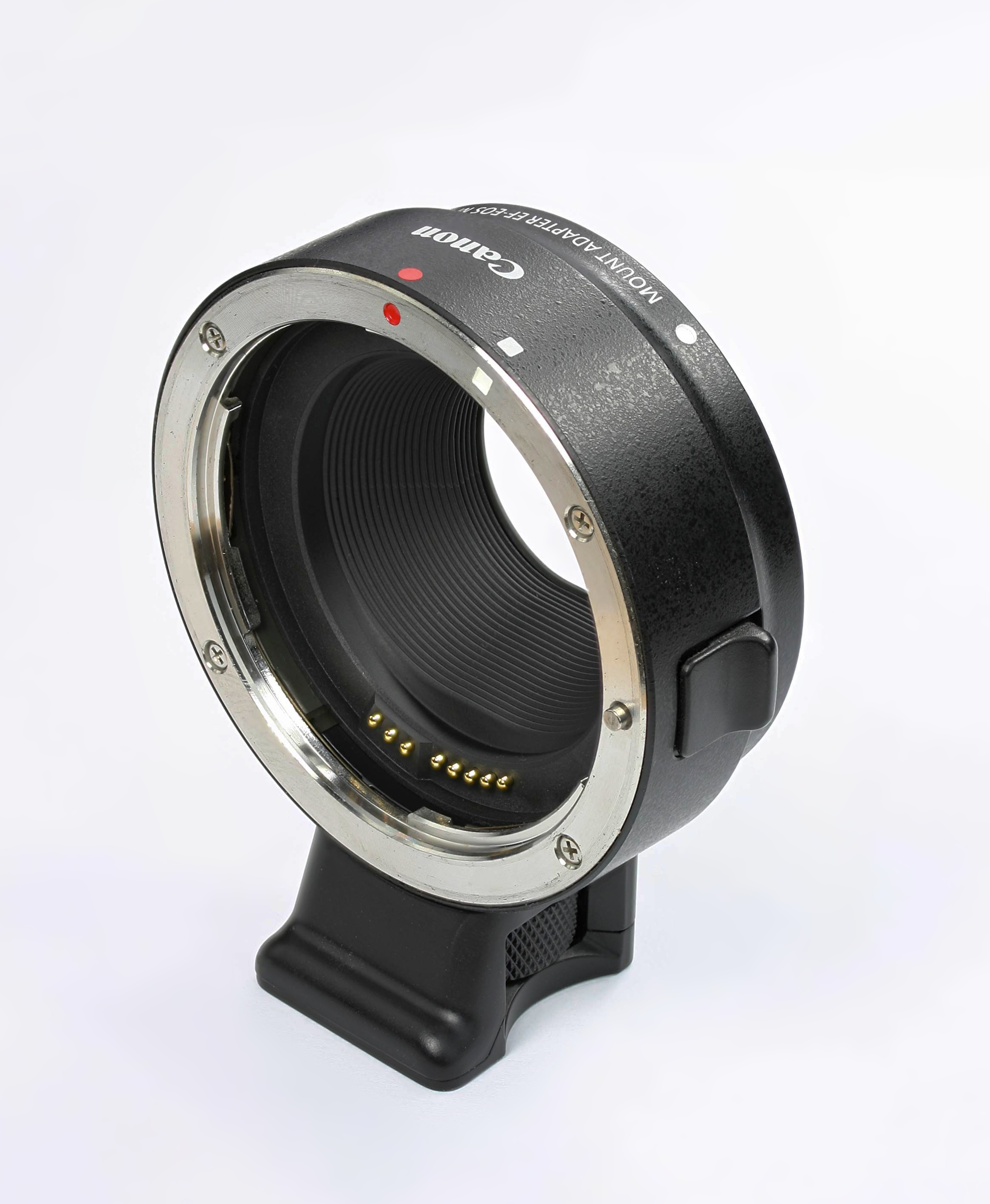 A lens mount adapter by Canon for using EF/EF-S) lenses in an EF-M lens mount